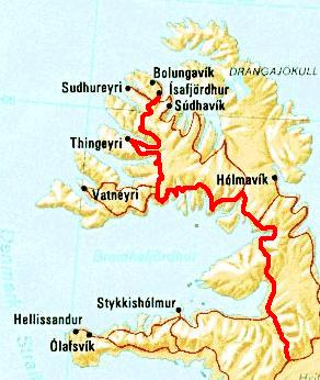 Route 60 in Iceland. Map used is found here